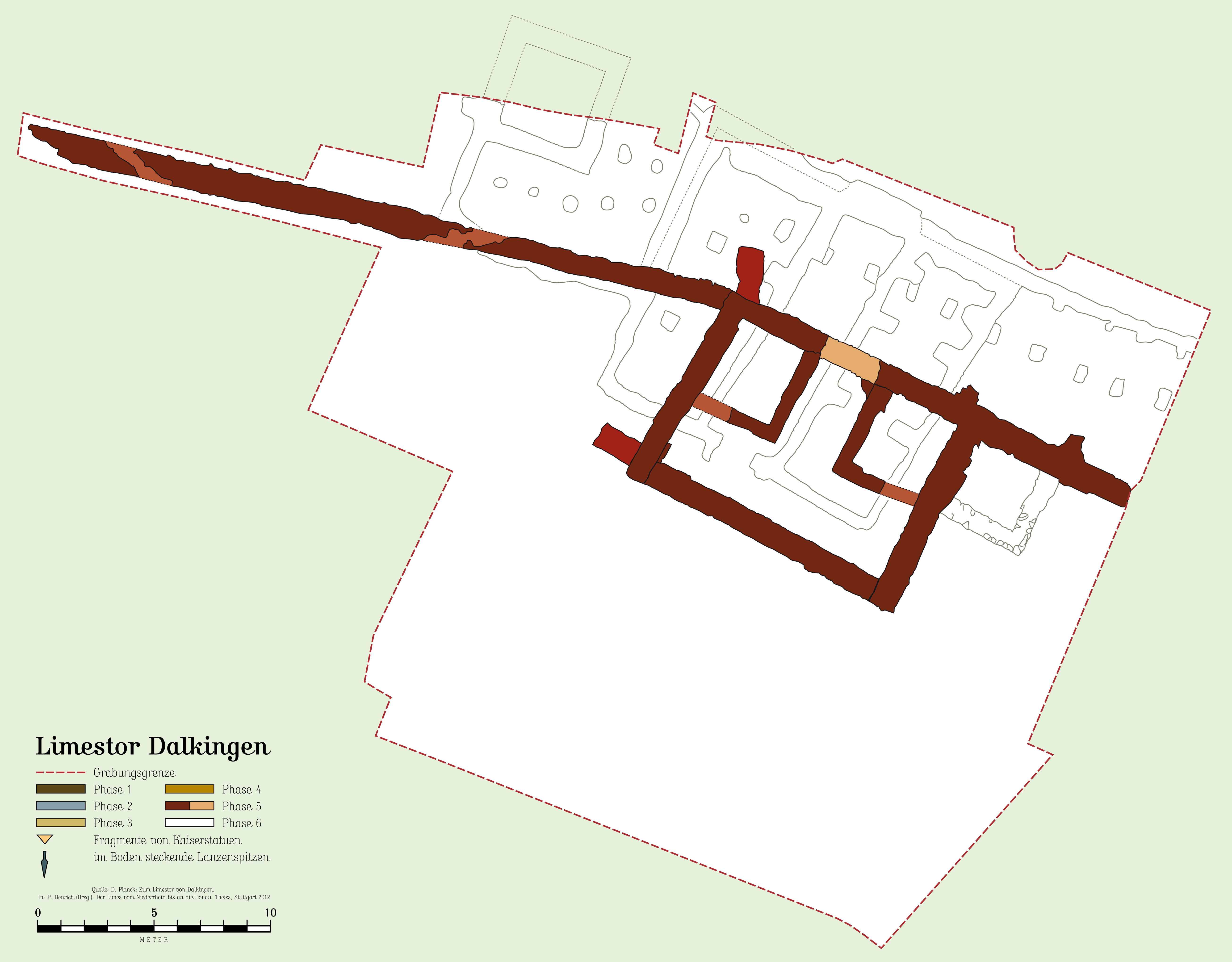 The Roman Limes gate of Dalkingen, Germany; 5st construction phase (of altogether six) after D. Planck. Created on Macintosh; saved in Wikipedia with Adobe Photoshop CS 3